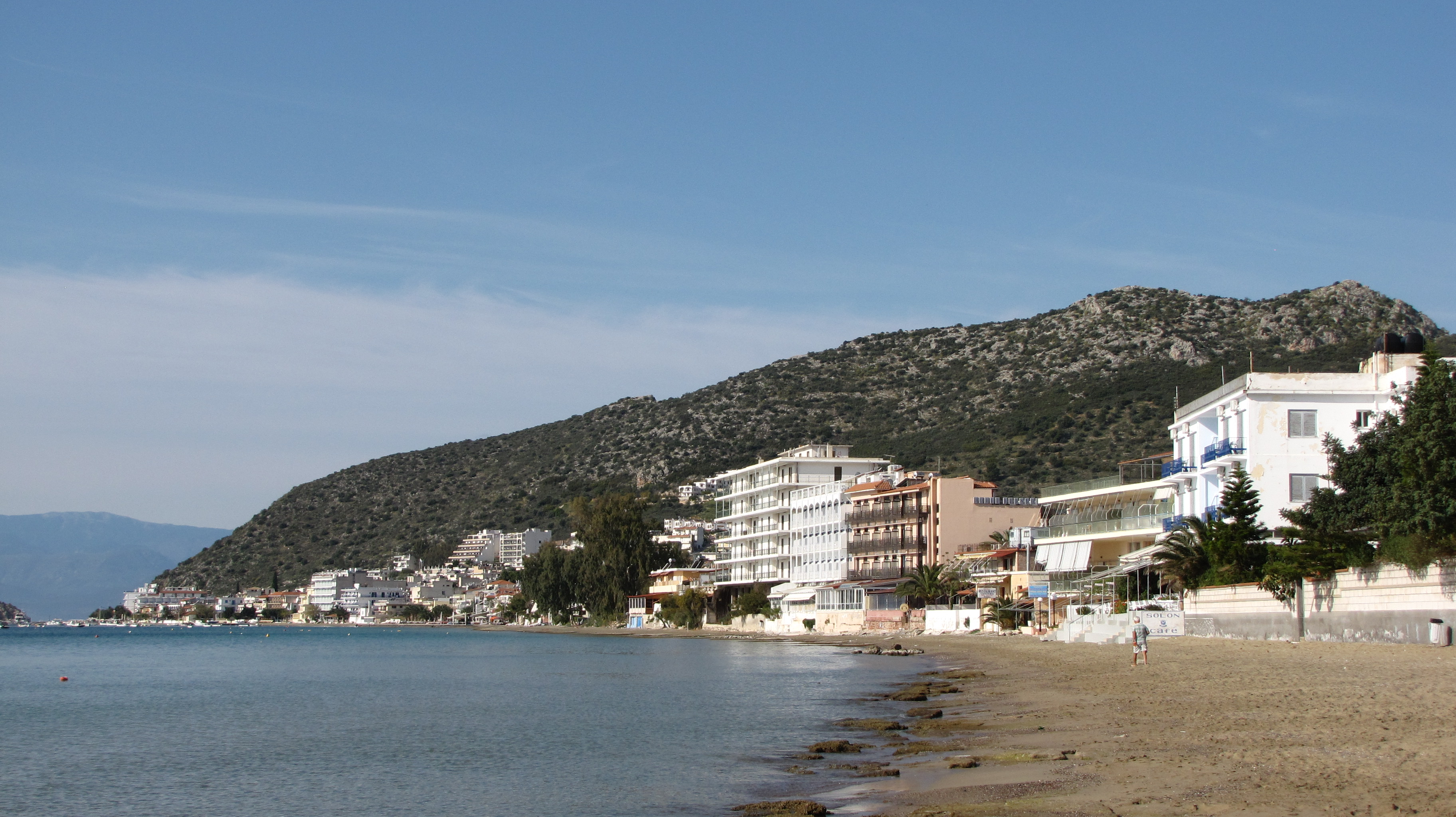 Village of Tolo in Greece on the Peloponnese peninsula.